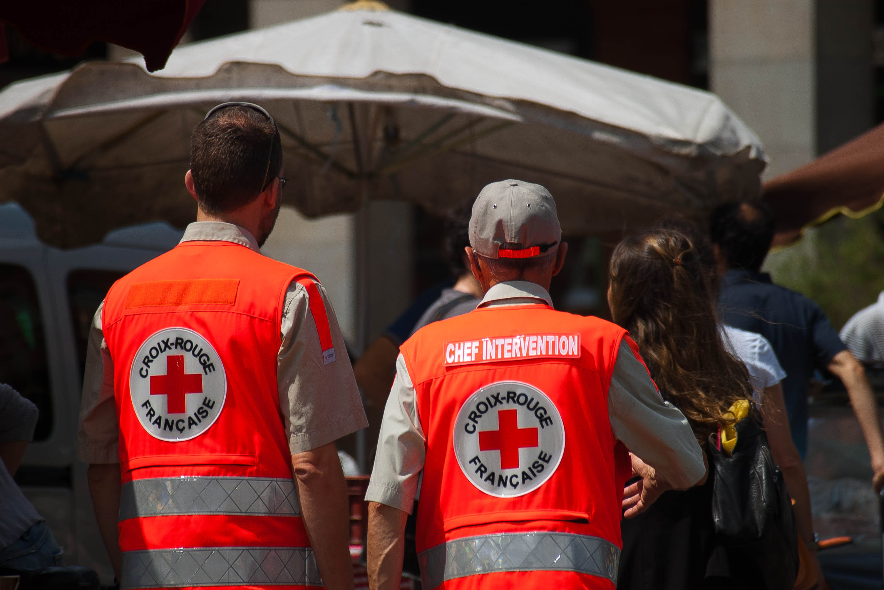 Toulouse Gay Pride 2014 Croix Rouge Francaise